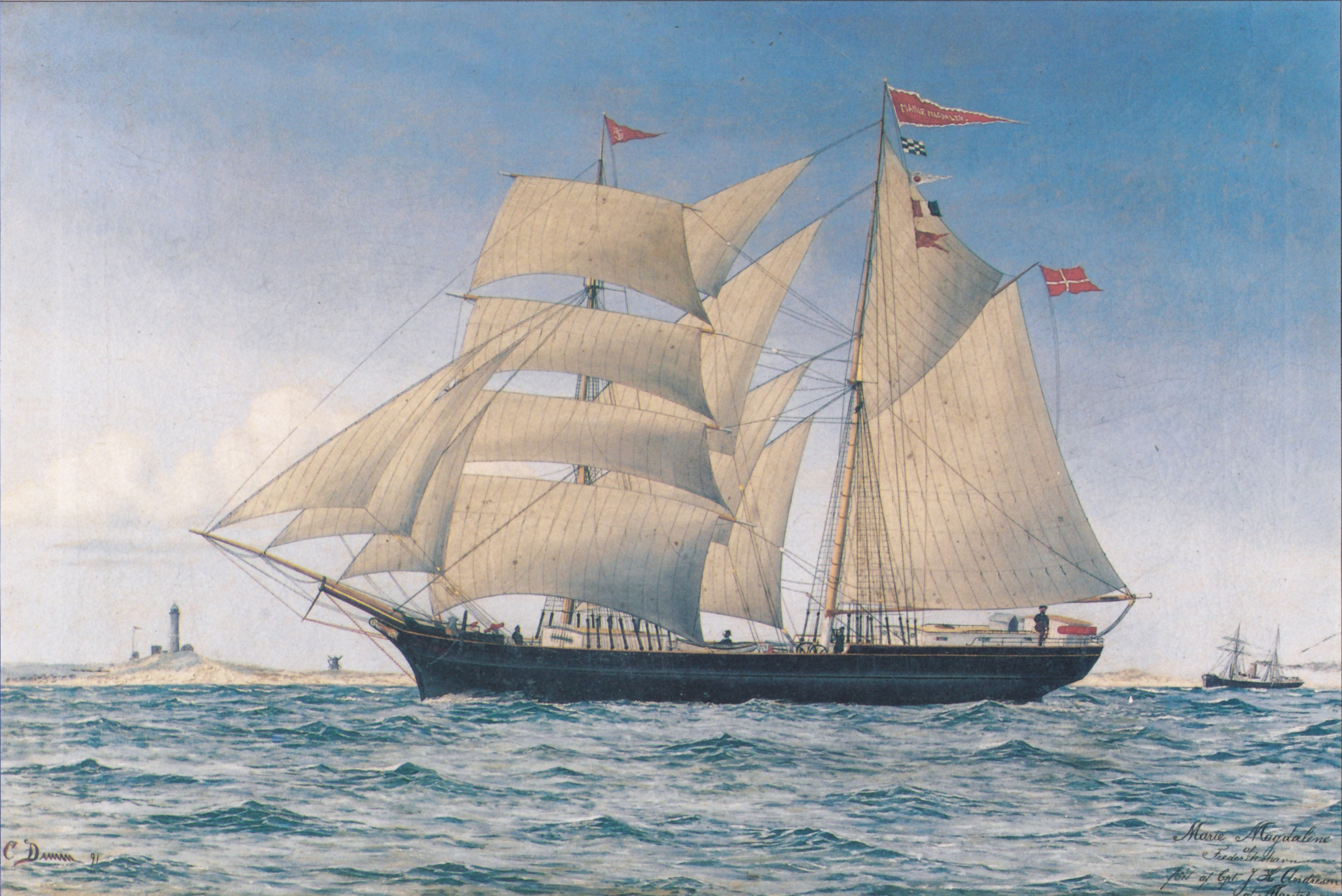 Damm was a harbour assistant at Frederikshavn, but he also made models and paintings of ships. The schooner brig is shown passing the lighthouse of Skagen and flying the signal flags of its identification letters NCTB. The master J.H. Andresen ordered the painting when he bought a part of a fourth of the ship in 1891.